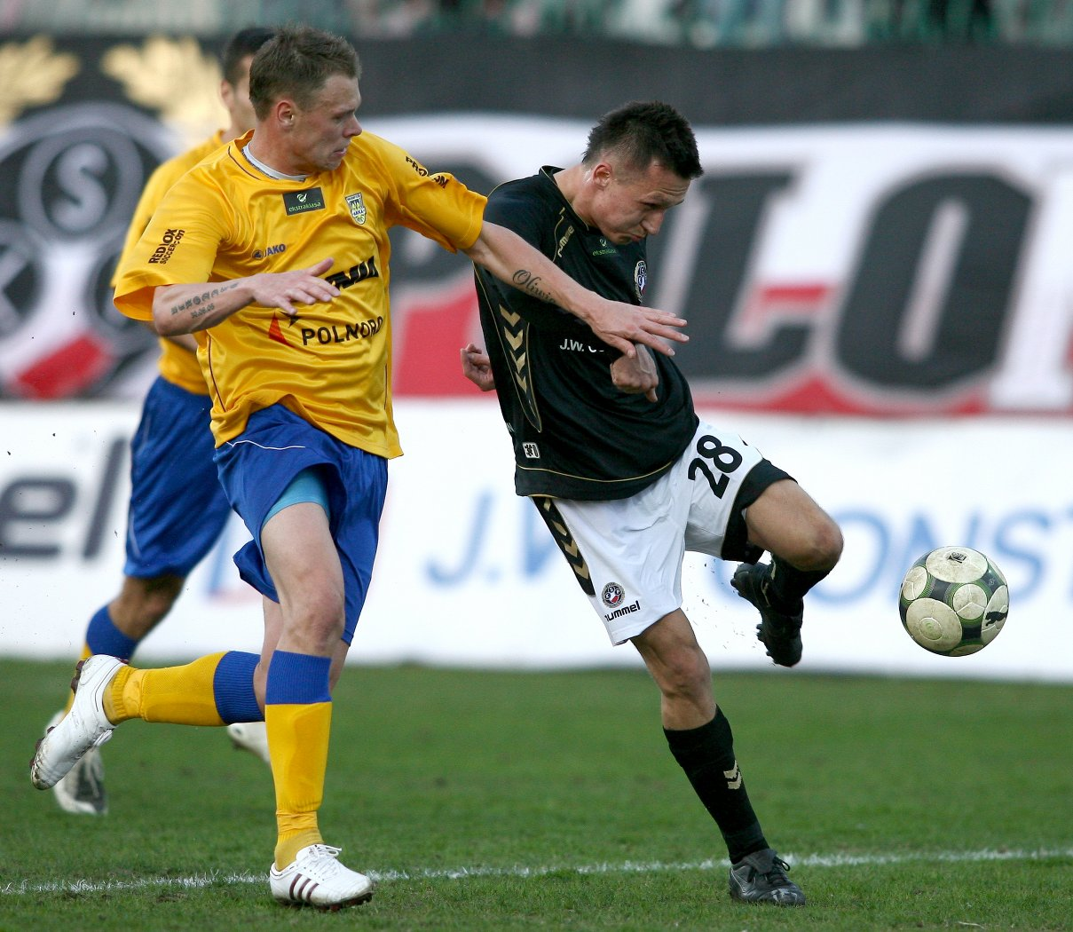 Adrian Mrowiec (left) of Arka Gdynia tries to stop Łukasz Piątek (right) of Polonia Warszawa in an Ekstraklasa match